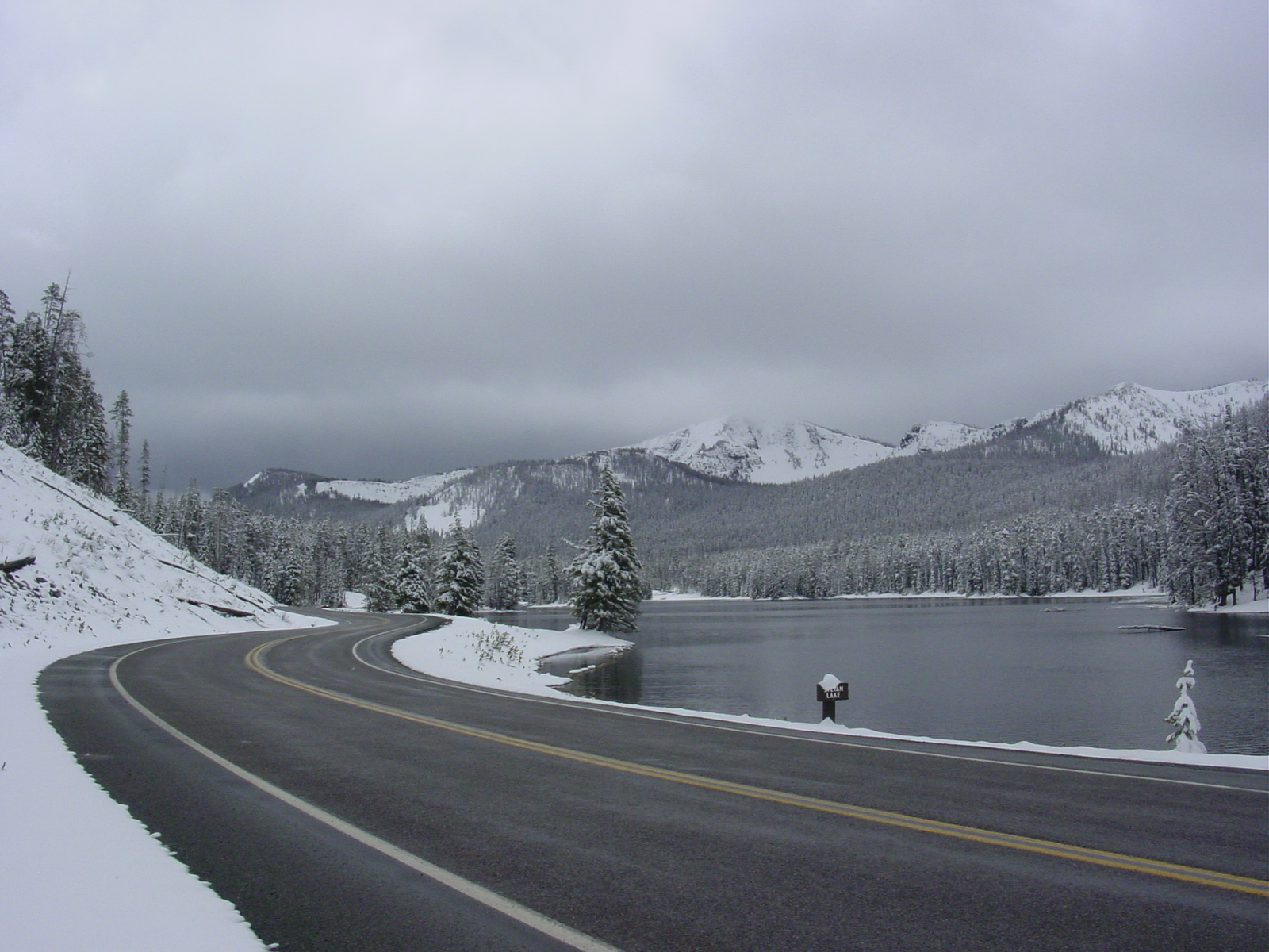 Sylvan Lake in Yellowstone National Park - May 2006 (c)2006 Shiras Rajendran